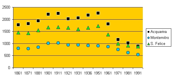 Population Development in the three villages with sizeable Molise Slav populations